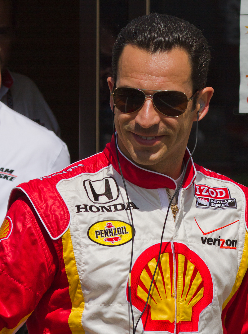 IndyCar Series 2011 Rd.15 Indy Japan 300: Hélio Castroneves (Team Penske)